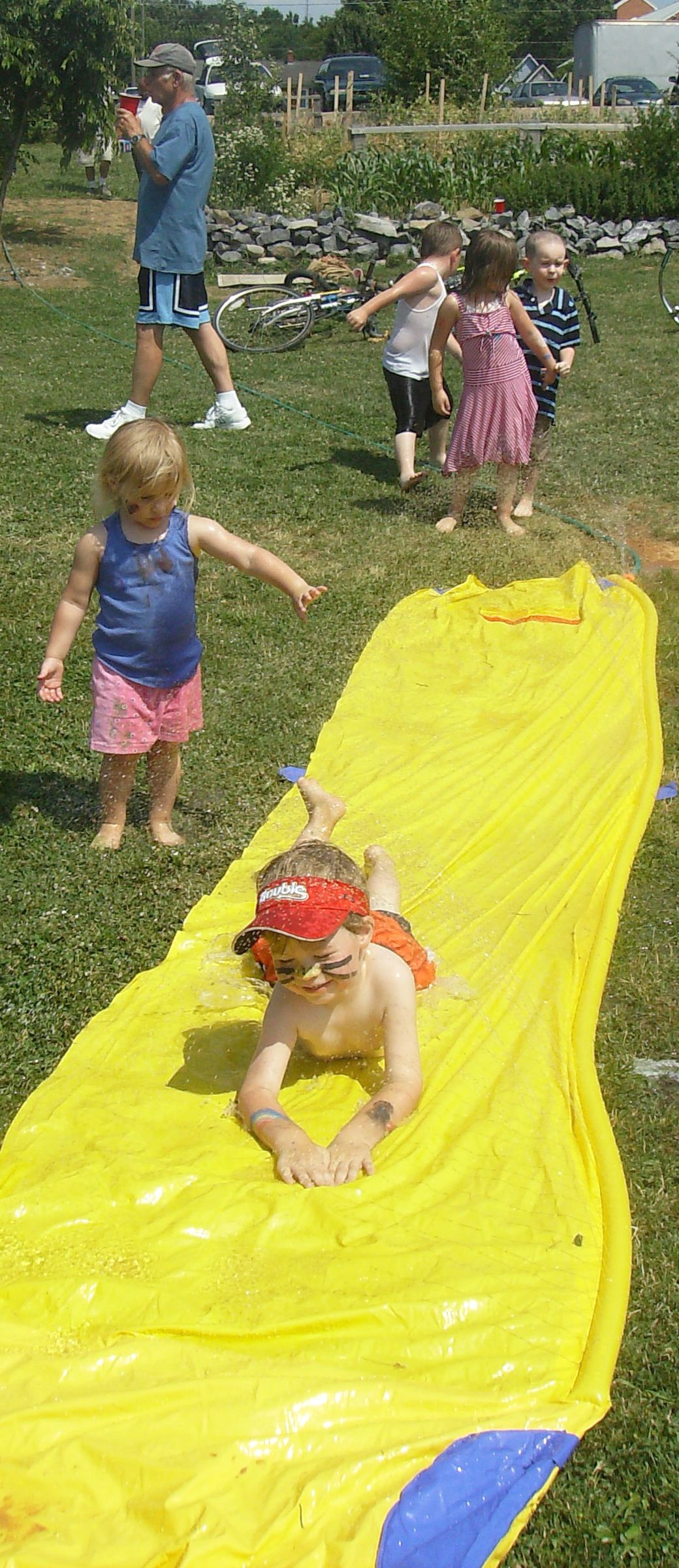 Children on water slide at Our Community Place Lawn Jam in Harrisonburg, Virginia (June 28, 2008).